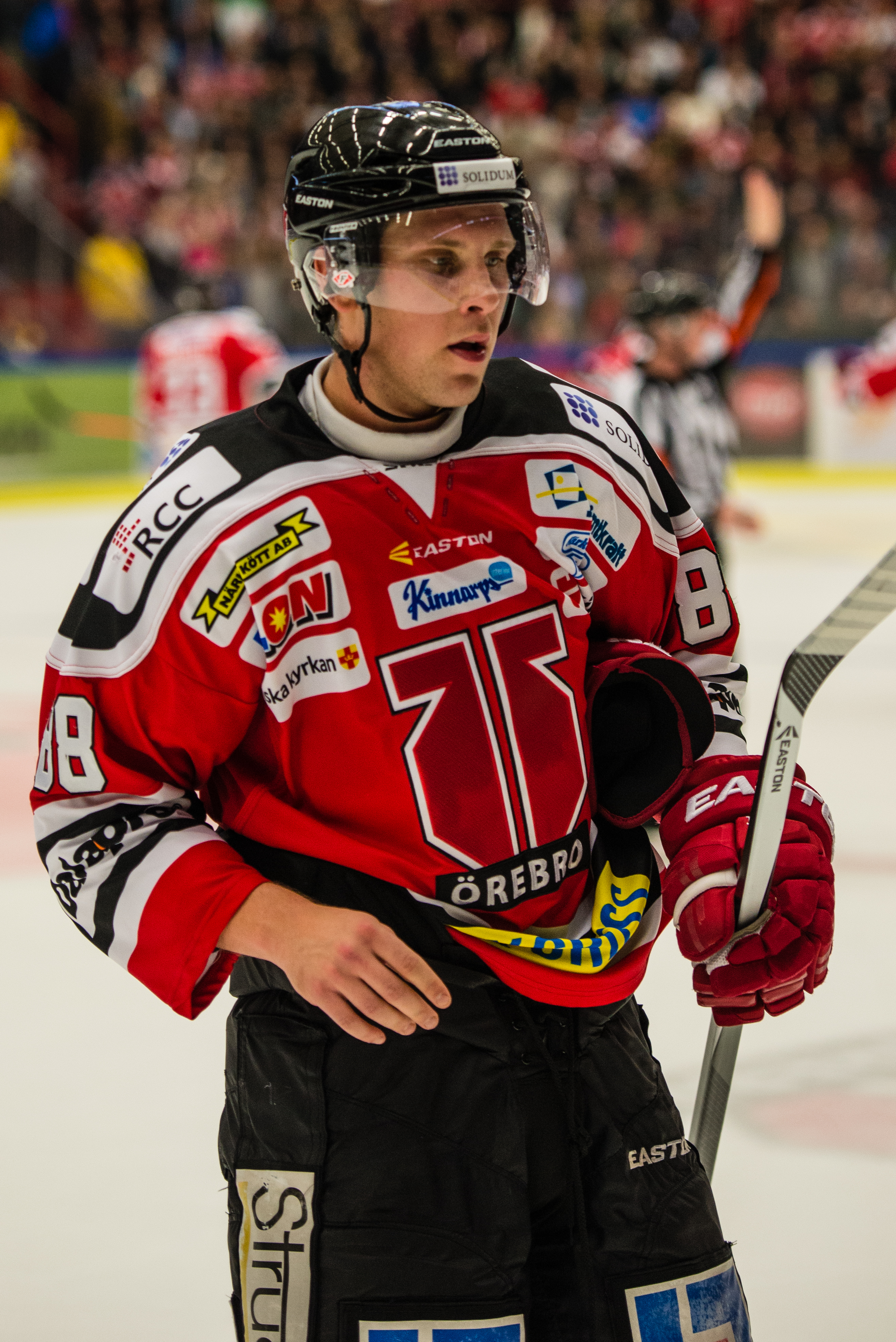 Viktor Ekbom playing for Örebro HK in SHL (Sweden's highest league) against MODO Hockey in Behrn Arena 2013-10-05.